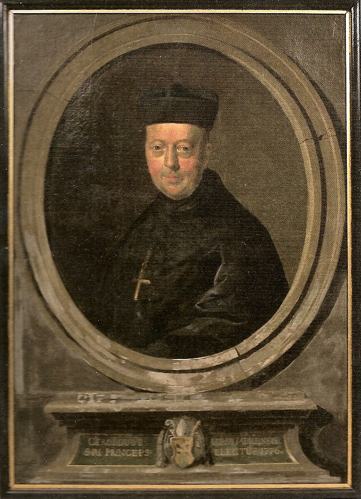 Gerold Meyer, imperial abbot of Muri from 1776 to 1810